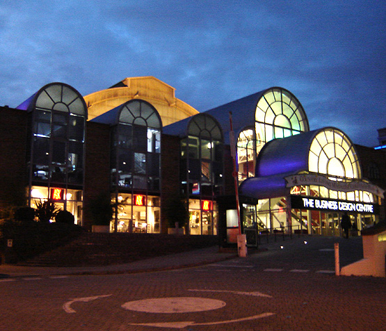 The Business Design Centre, Islington, London. 5 November 2005. Photographer: Fin Fahey.